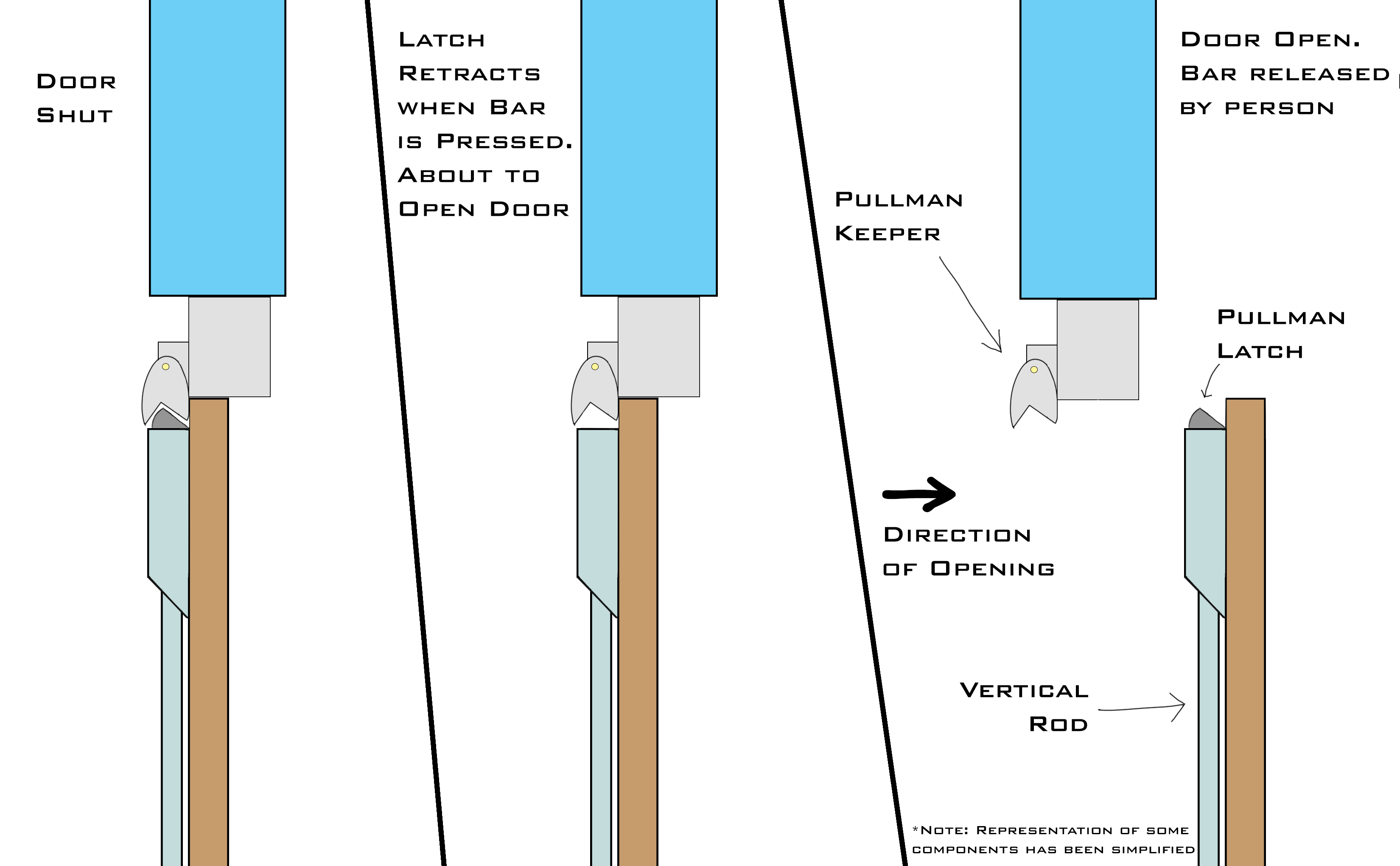 Simplified diagram of the vertical rod and Pullman latching components